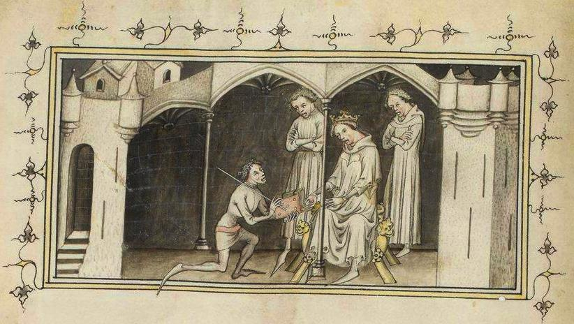 A painting representing pope Innocent III in the Contemptu mundi